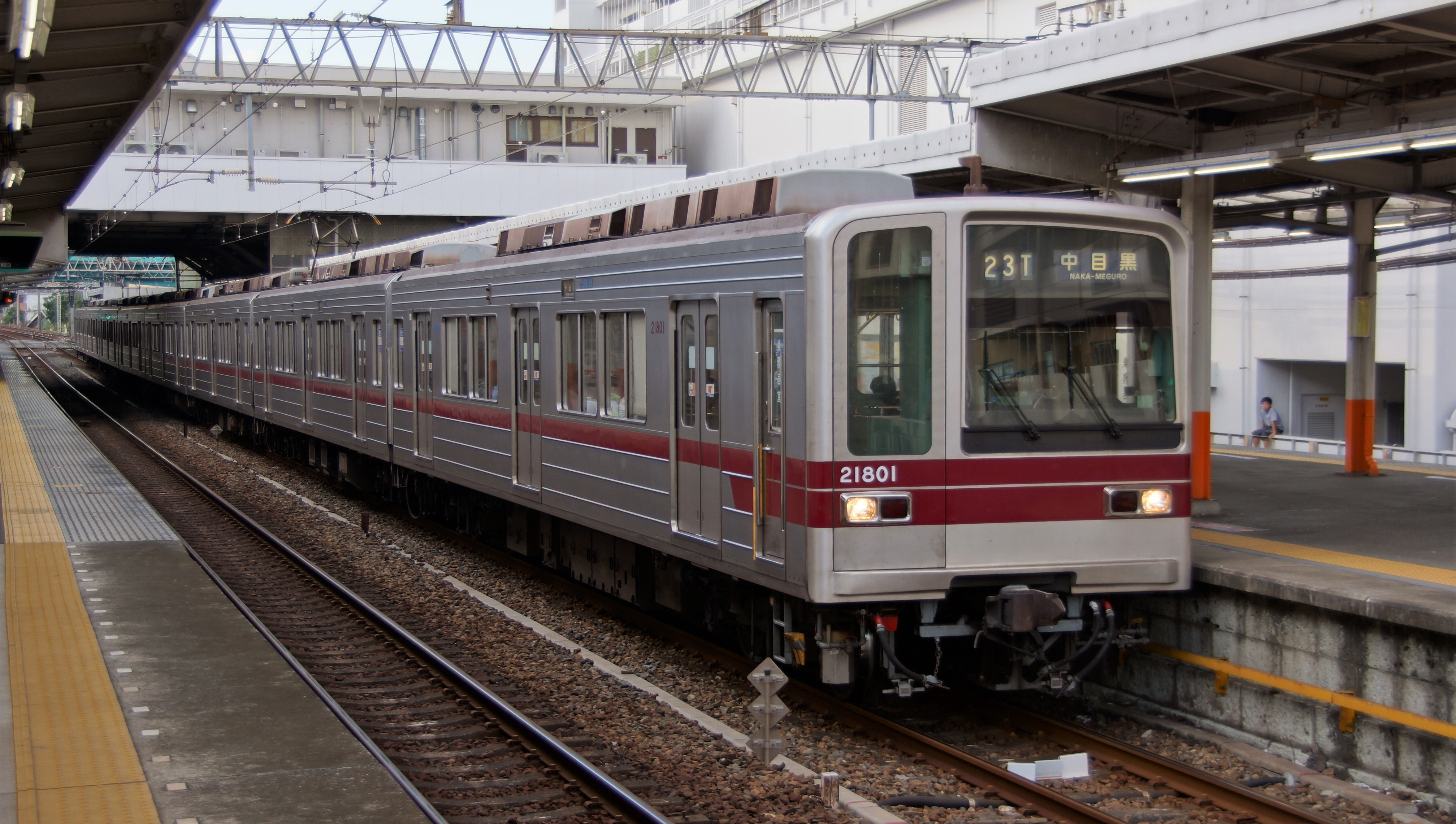 Tobu 20000 series EMU set 21801 at Nishiarai Station on the Tobu Skytree Line on a through service to Naka-Meguro